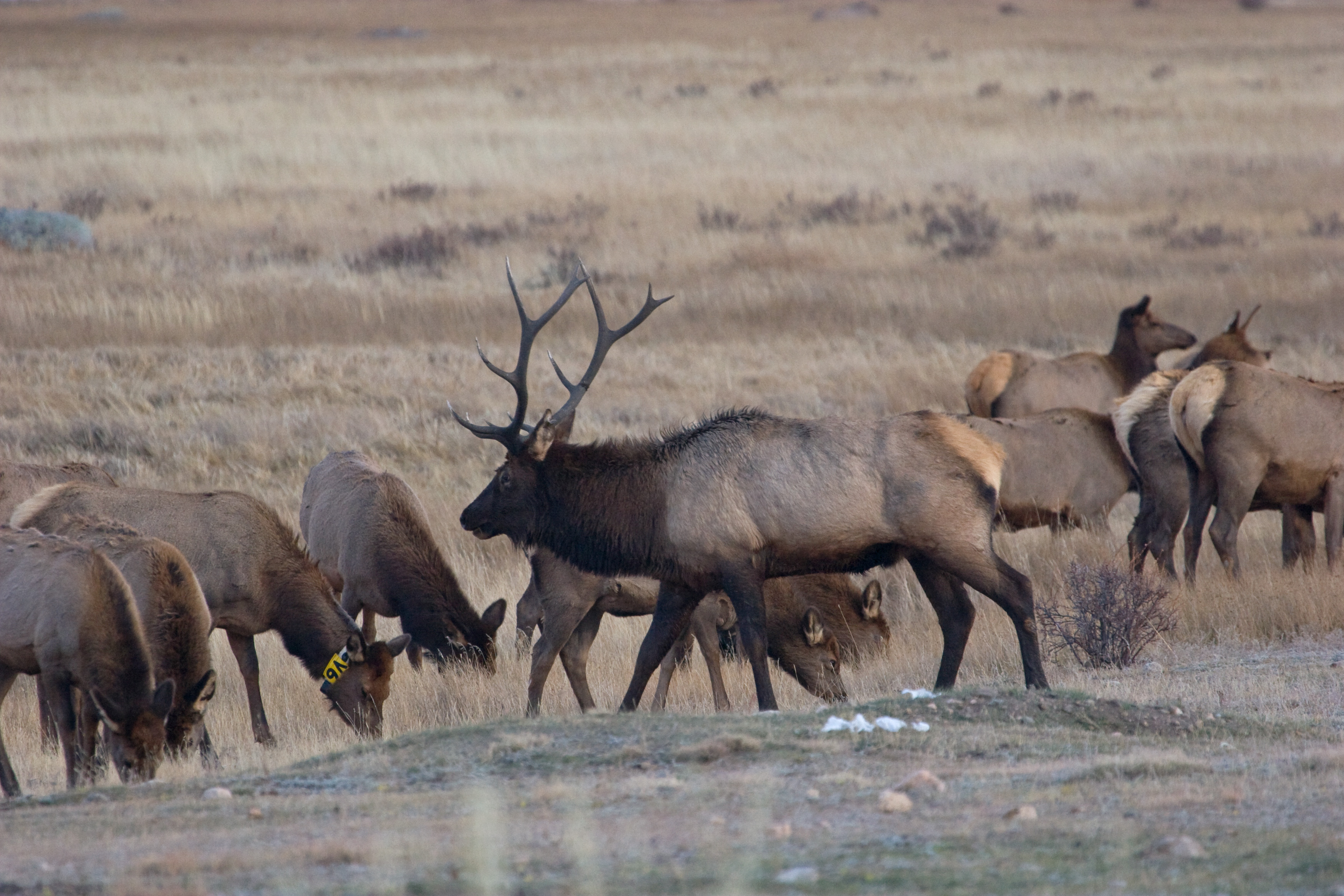 RMNP, Estes Park 2008-11-02